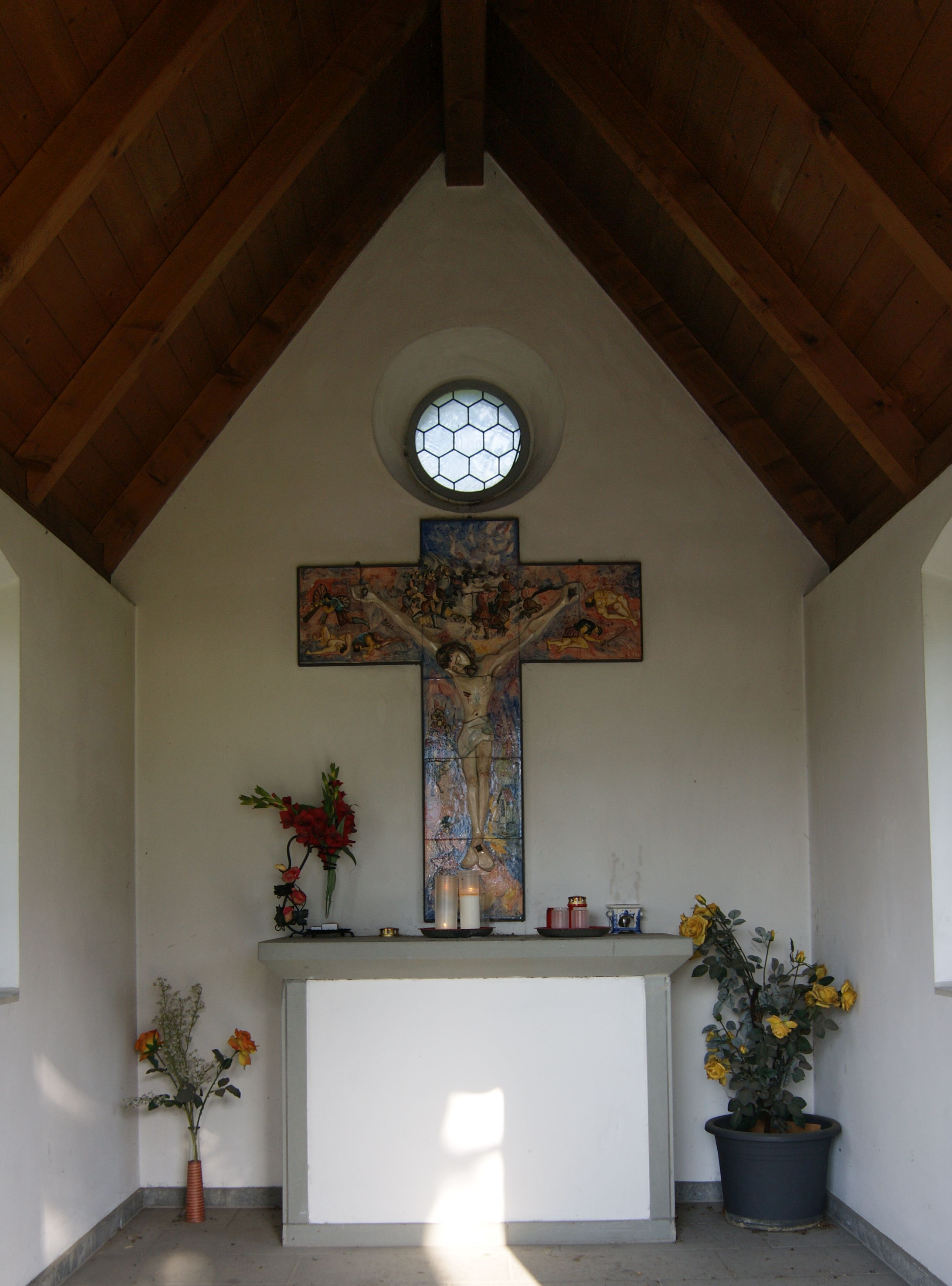 Chapel in the plot Hauptmannsbild in the municipality Satteins in Vorarlberg, Austria. The Chapel is located at the L54 (Walgaustraße) at about 476 masl and it is about 4 meters high. The "Kristbühl" (hill) can be seen in the background. The altarpiece represents the crucifixion group and is a ceramic work by Reinhard Welte from the year 1993. It consists of 9 individual plates with background lasted colors. About 400 meters away from the Hauptmannsbild plot is the historically important "Mugastierbühel" (hill).